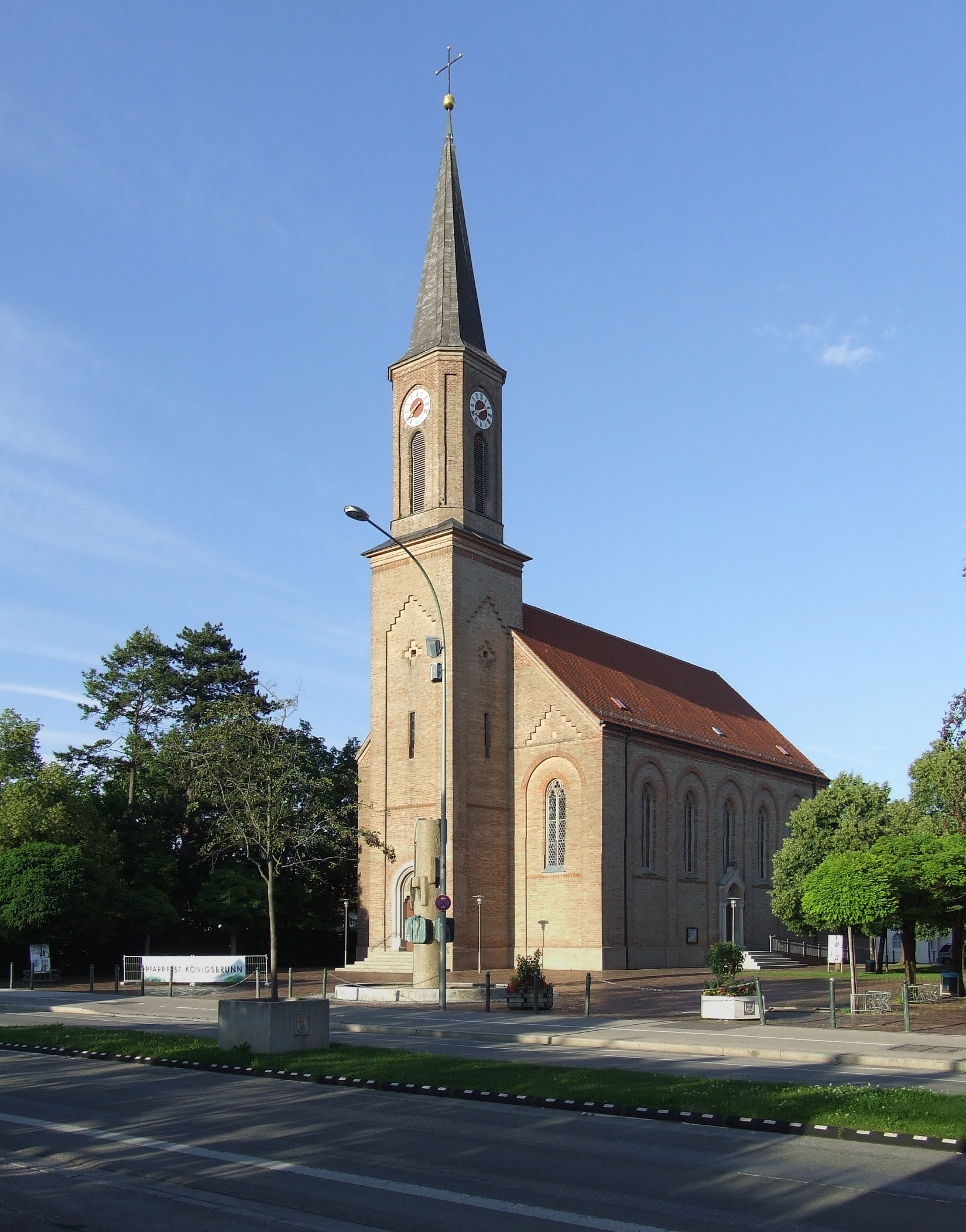 St. Ulrich church, Königsbrunn, Germany.